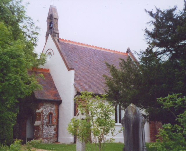 St Agatha's Church, Woldingham, Surrey. The ancient parish church of Woldingham